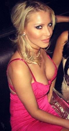 Adrianna Kroplewska in Chicago, 2010